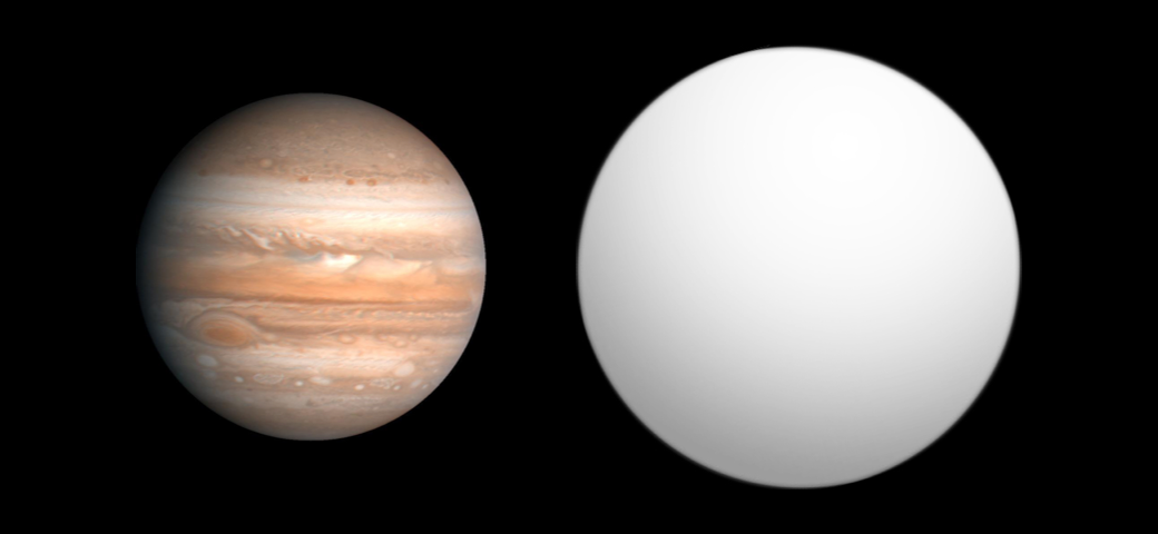 Comparison of best-fit size of the exoplanet HAT-P-4 b with the Solar System planet Jupiter, as reported in the Open Exoplanet Catalogue[1] as of 2010-09-30. ↑ Open Exoplanet Catalogue (2010-09-30). Retrieved on 2010-09-30.